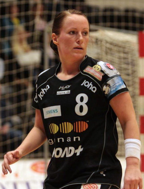 Ragnhild Aamodt, Norwegian handball player, during a 2008/09 Danish Championship play off match between FC Midtjylland and FCK. The picture was taken at Ikast-Brande Arena on 22 April 2009.